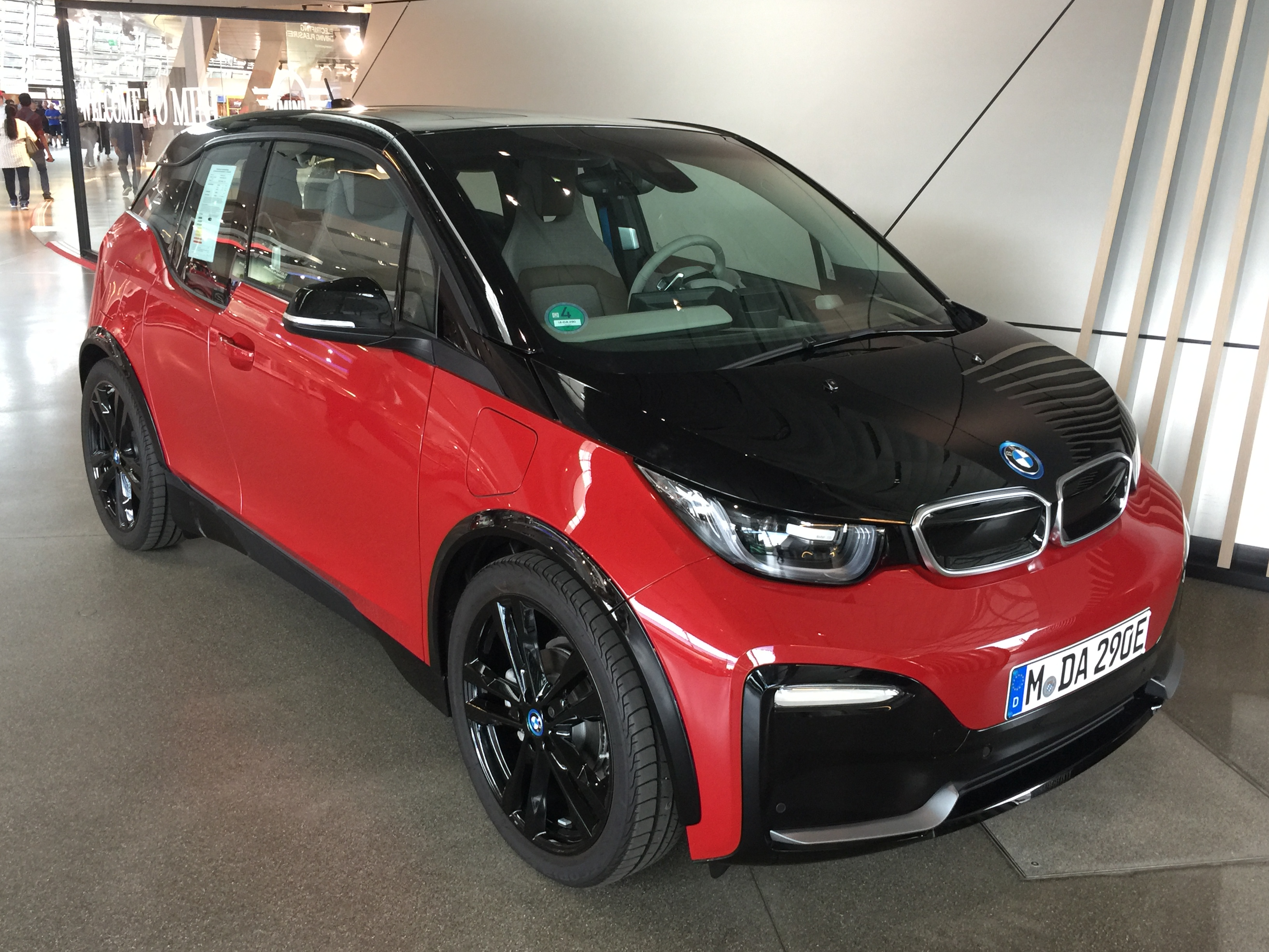 A BMW i3s in the headquarter of BMW, Munich, Germany